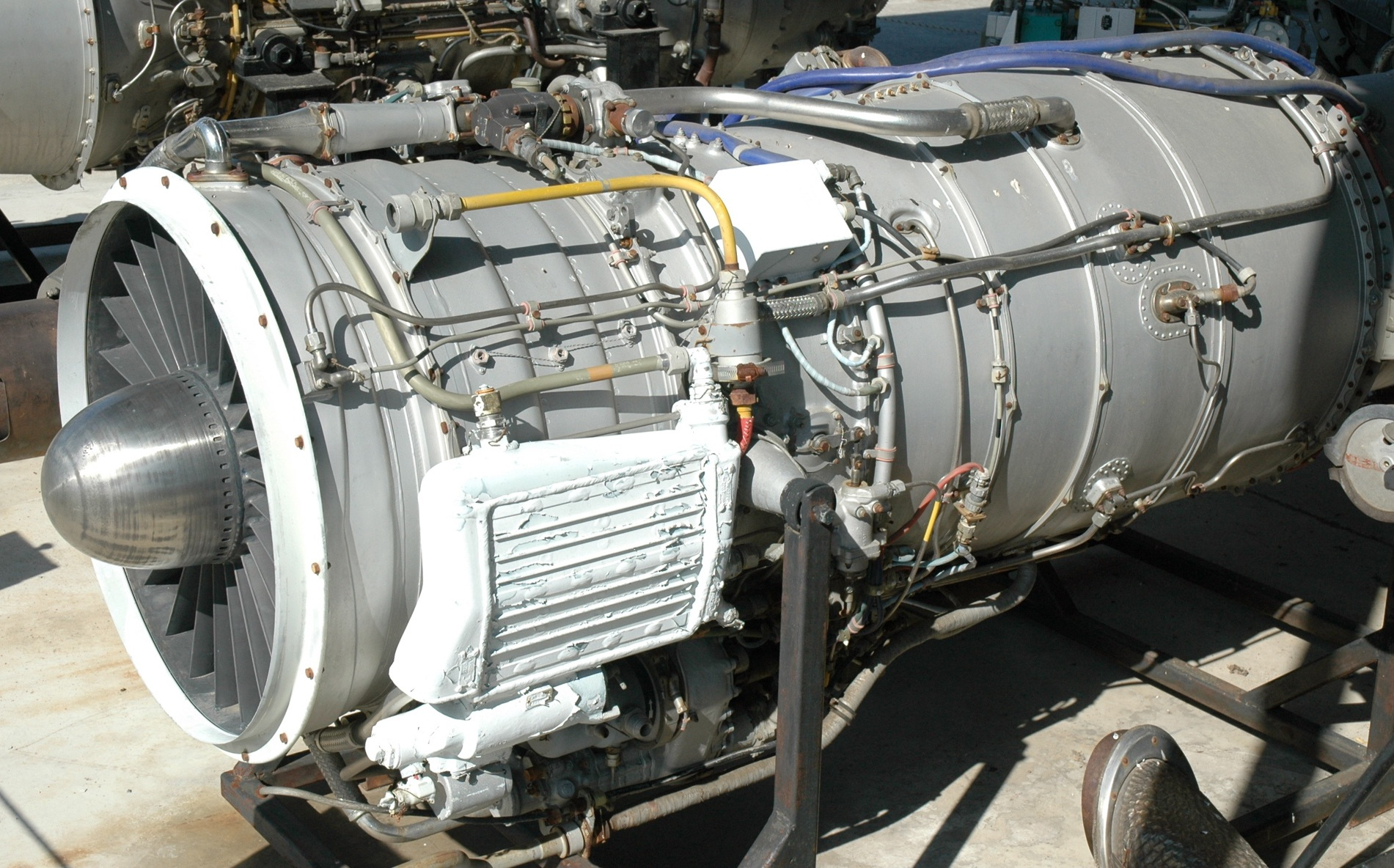 Ivchenko AI-25TL turbofan engine (displayed at the Hungarian Aviation Museum in Szolnok)